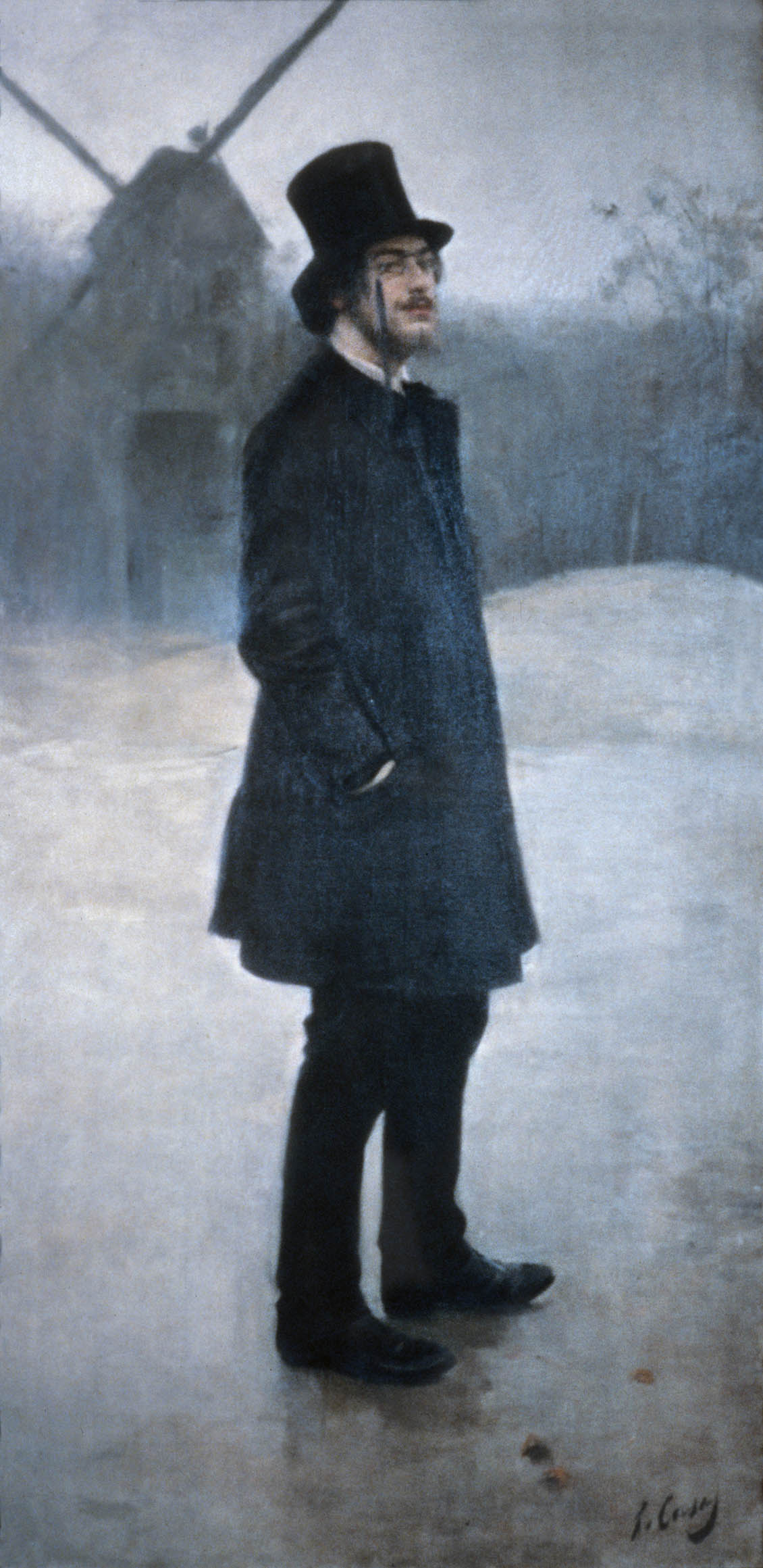 El bohemi by Ramon Casas. El Bohemio, Poet of Montmartre, is a portrait of composer Erik Satie (1866-1925) near the Moulin de la Galette in Montmartre, hangs in the Art Collection. The painting was donated to the Library by the Deering family and has traveled around the world to be included in major museum exhibitions.